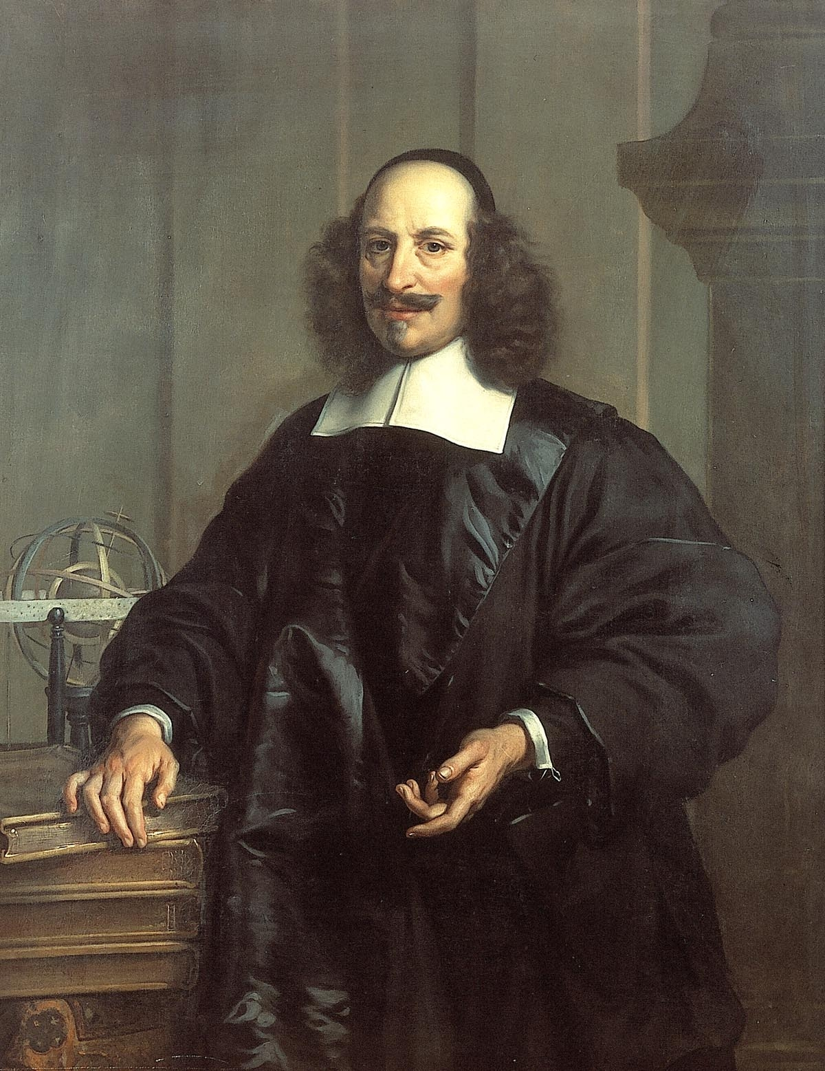 Portrait of Joan Blaeu by J.van Rossum.